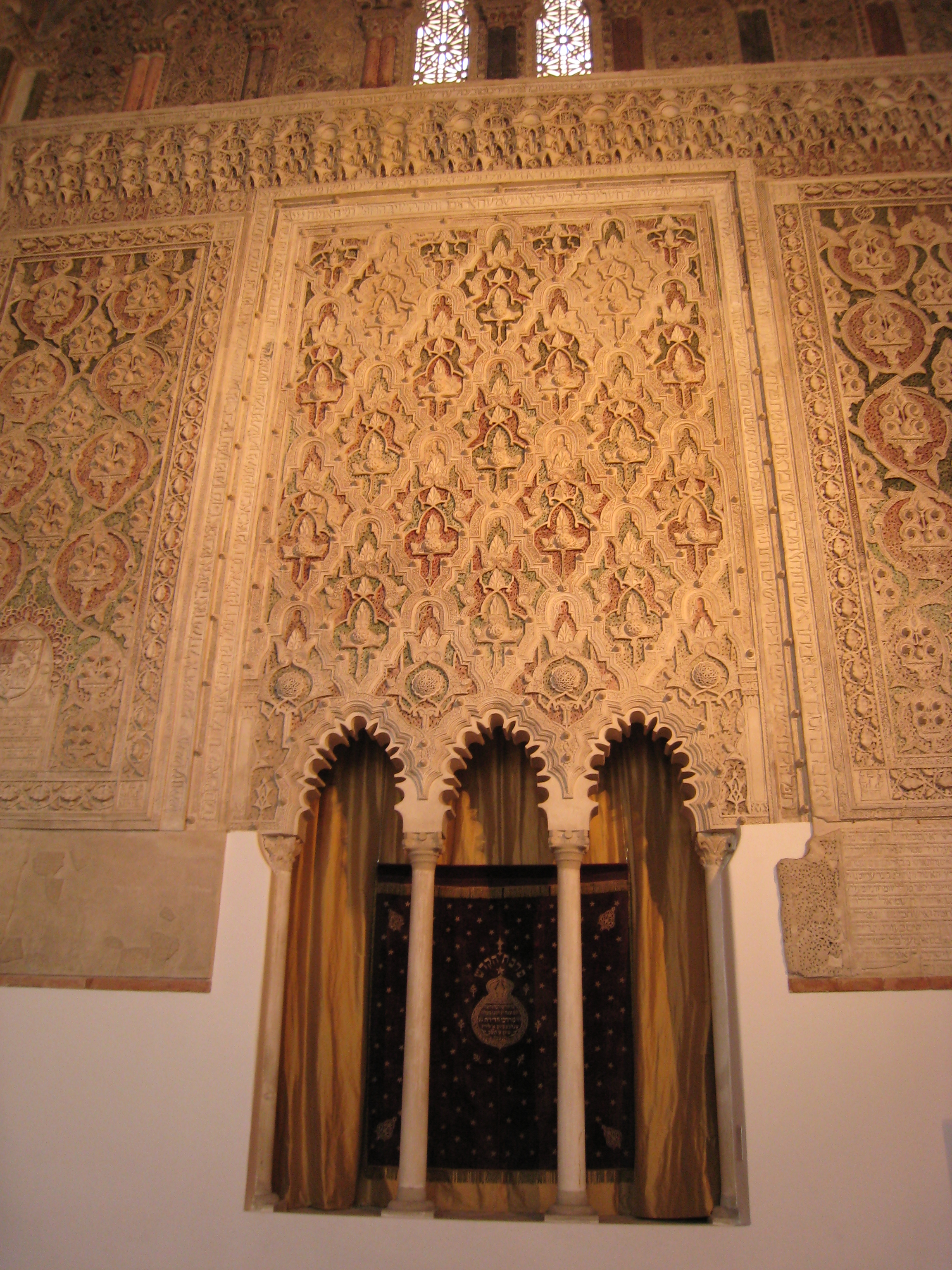 Sinagoga del Tránsito, Toledo (Spain)